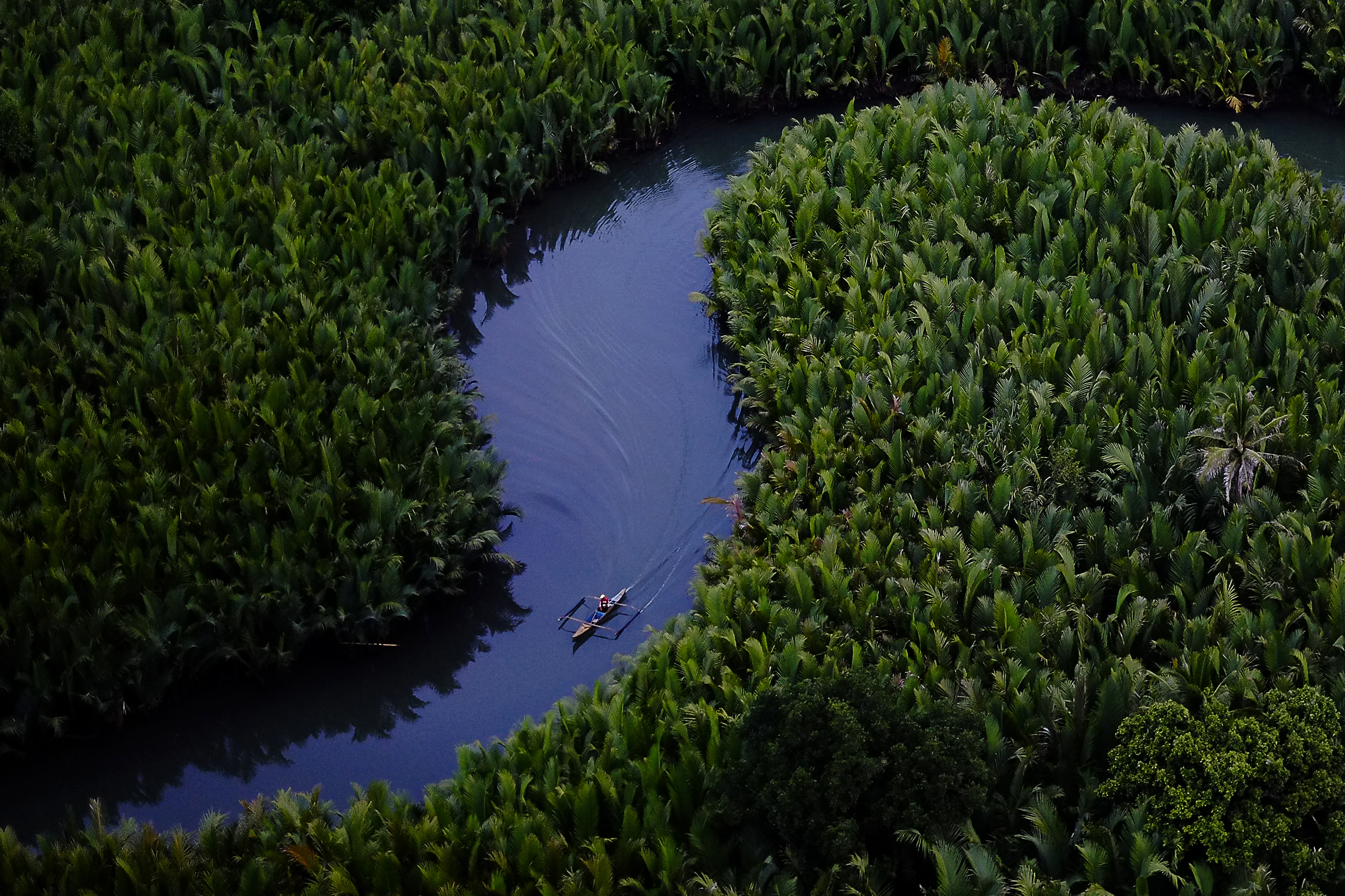 A fisherman cruises through the Dioyo River in Baliangao, Misamis Occidental.